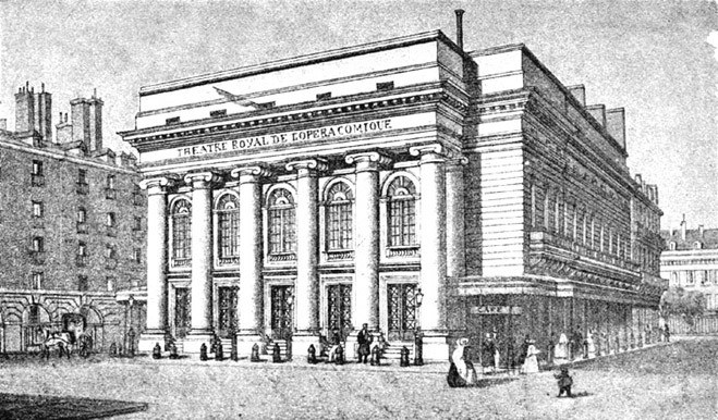 Lithograph of the second Salle Favart which housed the Opera-Comique between 1840 and 1887. Although it was very similar in design to the first Salle Favart, there were notable differences. For instance, the architect increased the spaciousness of the entrance vestibule and the salon above by moving the front façade forward to just behind the six front columns.